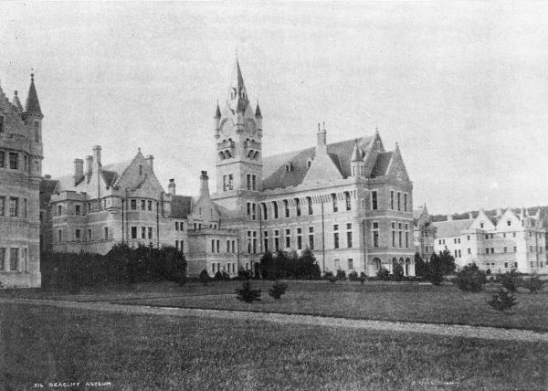 Seacliff Lunatic Asylum NZ. Picture over 90 years old therefore in the public domain. From the Dictionary of New Zealand Biography Volume Two (1870-1900).